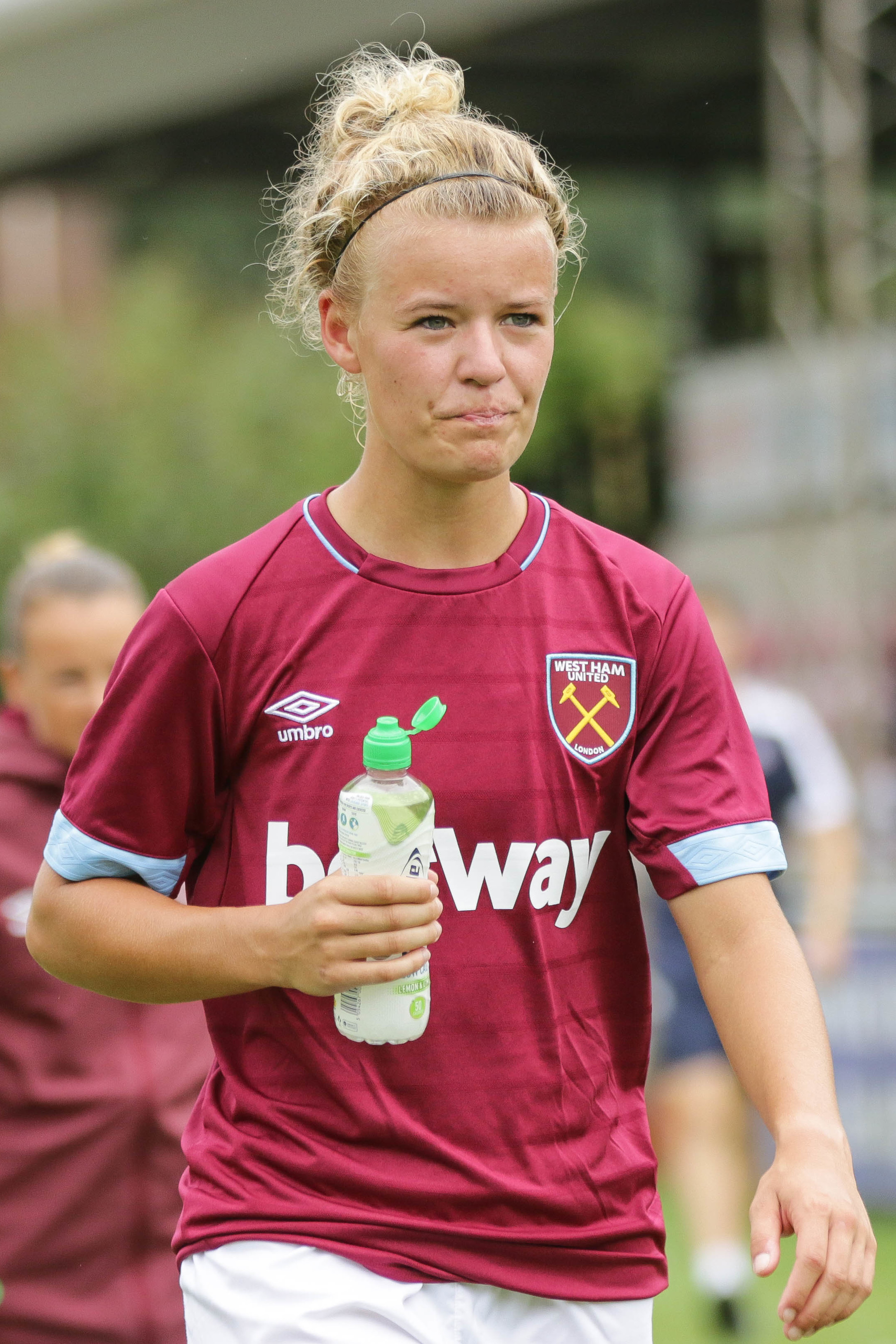 Lewes FC Women 0 West Ham Utd Women 5 pre season 12 08 2018-626.jpg